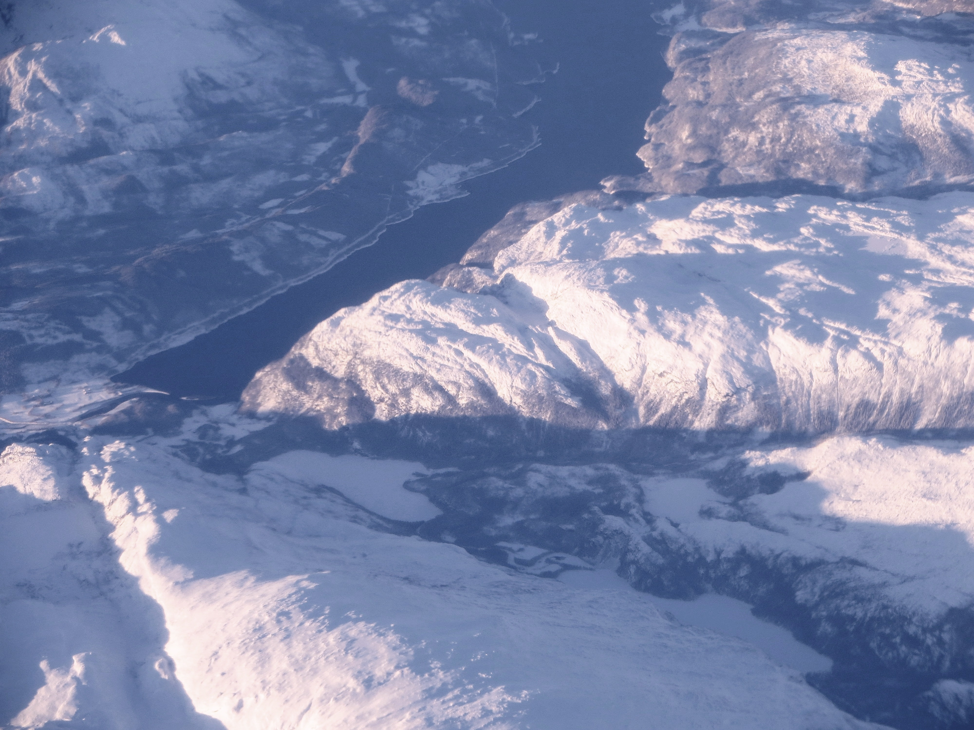 Aerial viev from the east towards the west, over Høylandet municipality in Nord-Trøndelag county - Norway.